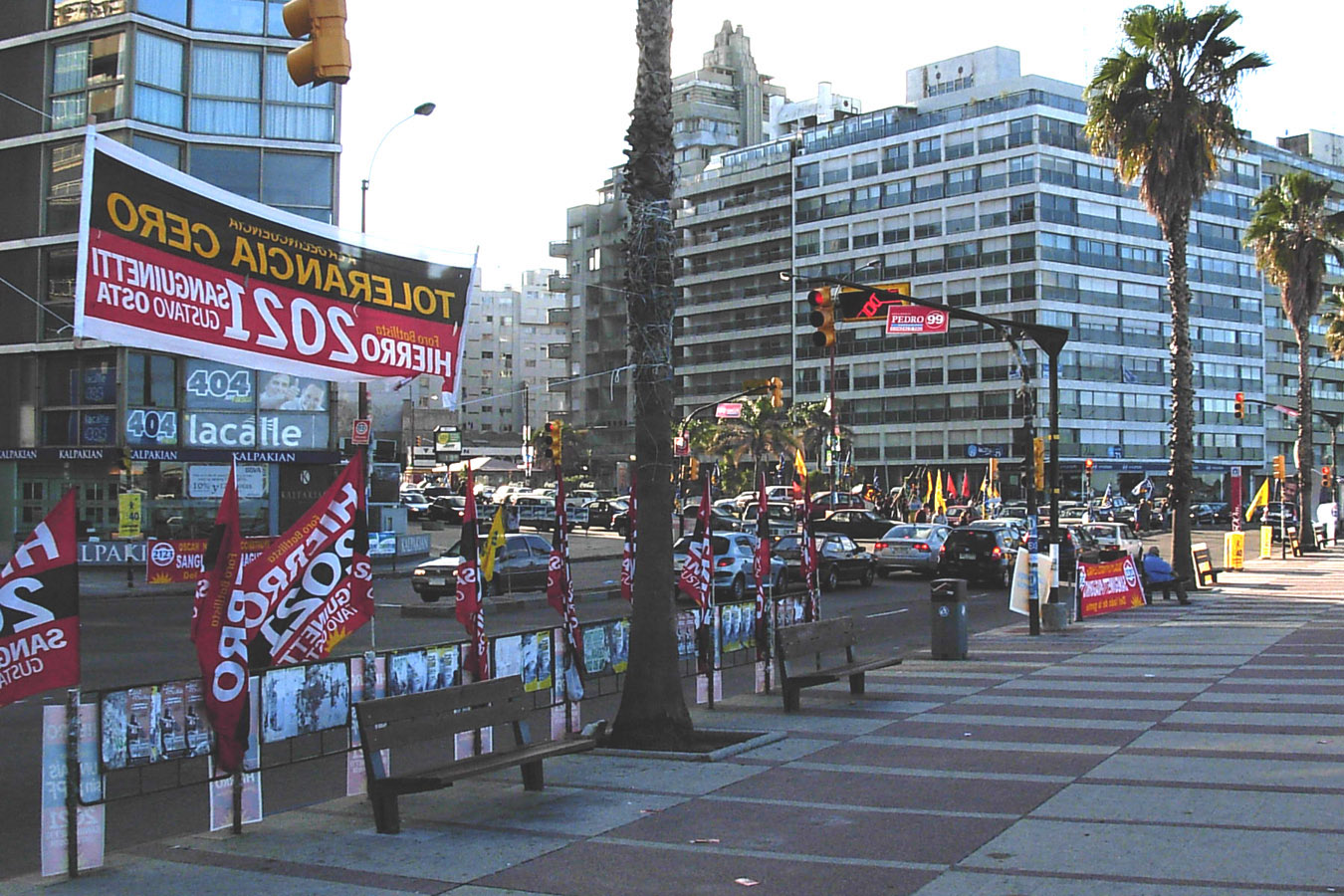 Electoral campaign in the Montevidean rambla eight days before the 2009 Uruguayan primary election. Propaganda of the Colorado Party on display, supporting the candidacy of Luis Hierro López.